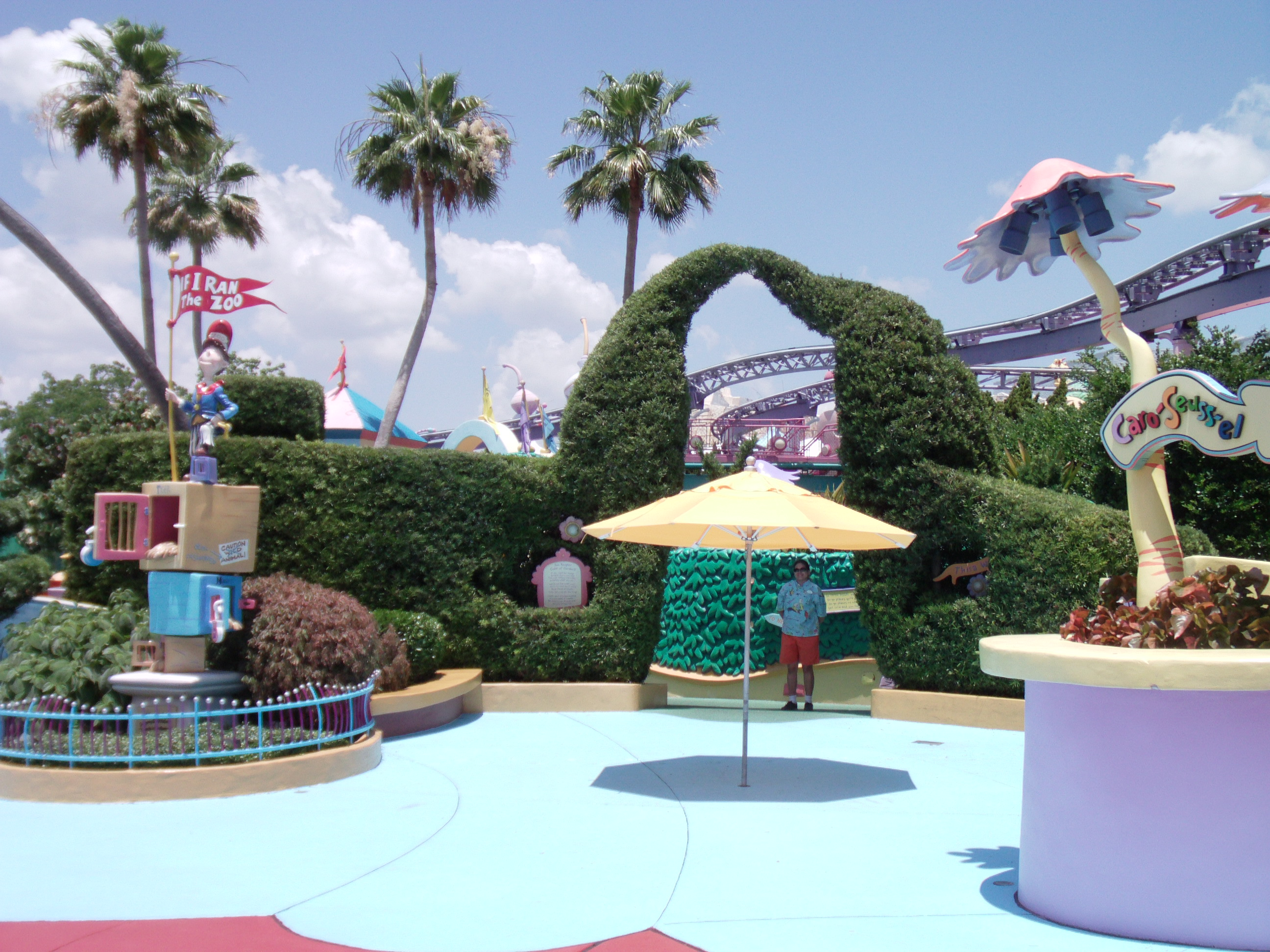 Entrance of If I Ran the Zoo at Islands of Adventure.